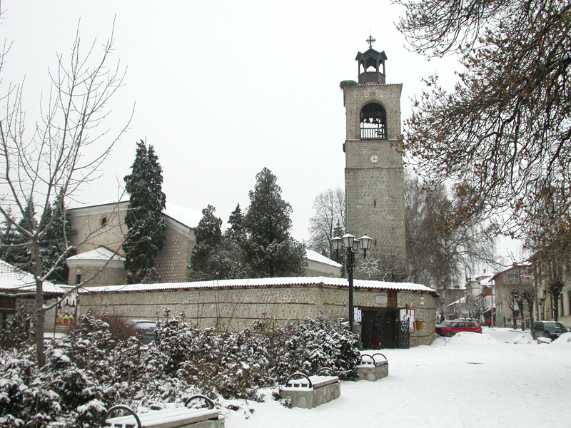 Church of the Holy Trinity in Bansko, Bulgaria. From the Russian Wikipedia. Author: lite